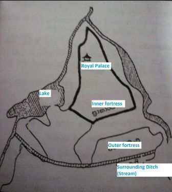 map